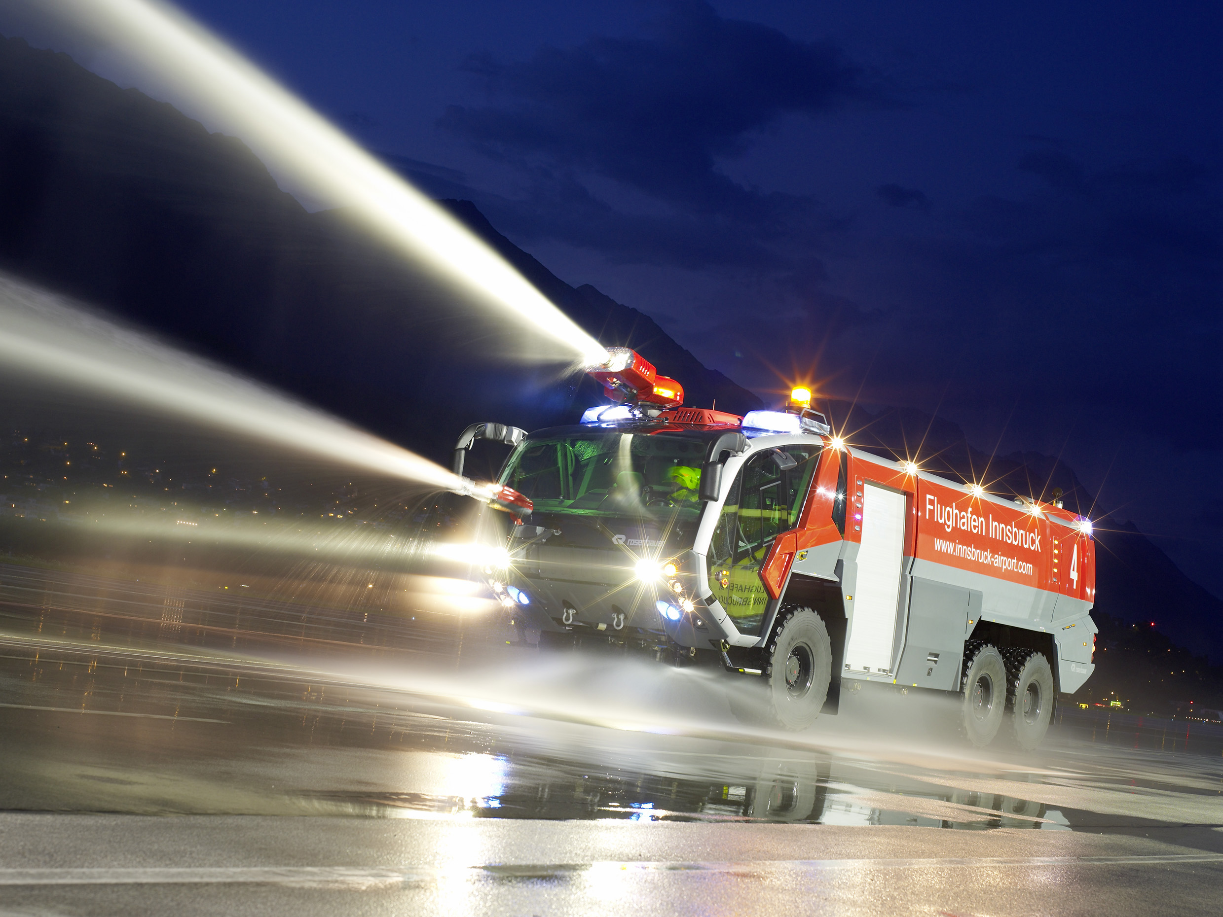 Fire engine